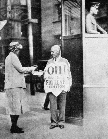 Upton Sinclair himself, selling the “Fig Leaf Edition” of his book Oil! in Boston.